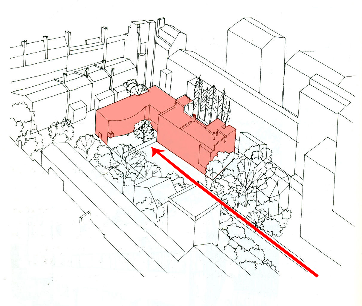 Emplazamiento demarcado